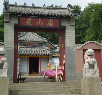 lingshan temple